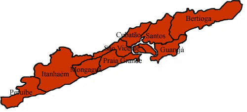 Map of the Região Metropolitana da Baixada Santista.